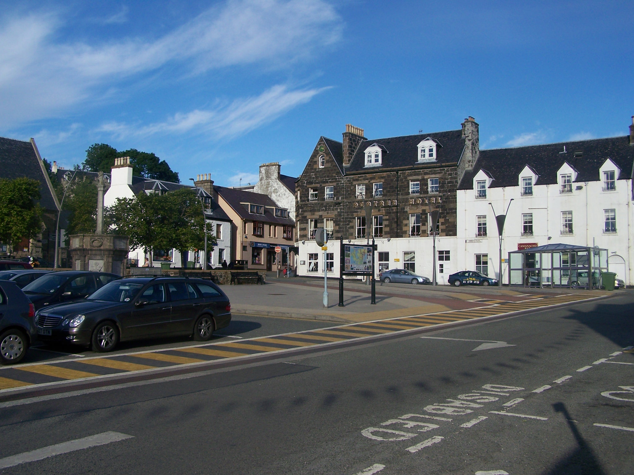 Somerled square in the Scottish city of Portree, on the Isle of Skye.